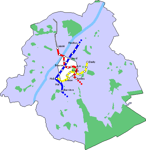 Network plan of the Brussels Metro in 1925 by Dyle & Bacalan Corporation